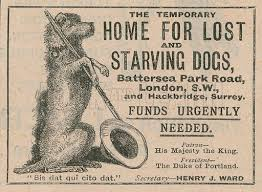 1901 advert for Battersea dogs home founded by Mary Tealby